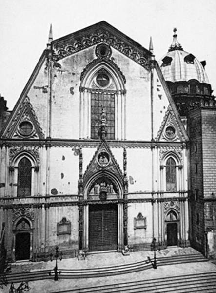 Naples Cathedral, before reconstruction of the façade began in 1877.